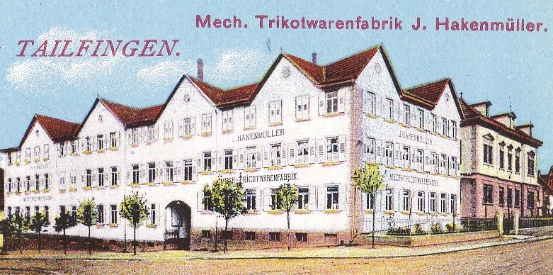 In the centre of Albstadt-Tailfingen in Southwestern-Germany at the Lange-Straße Johannes Hakenmüller constructed right to his parents house in 1900 by the architect Carl Ammann a further and much more greater production-building.